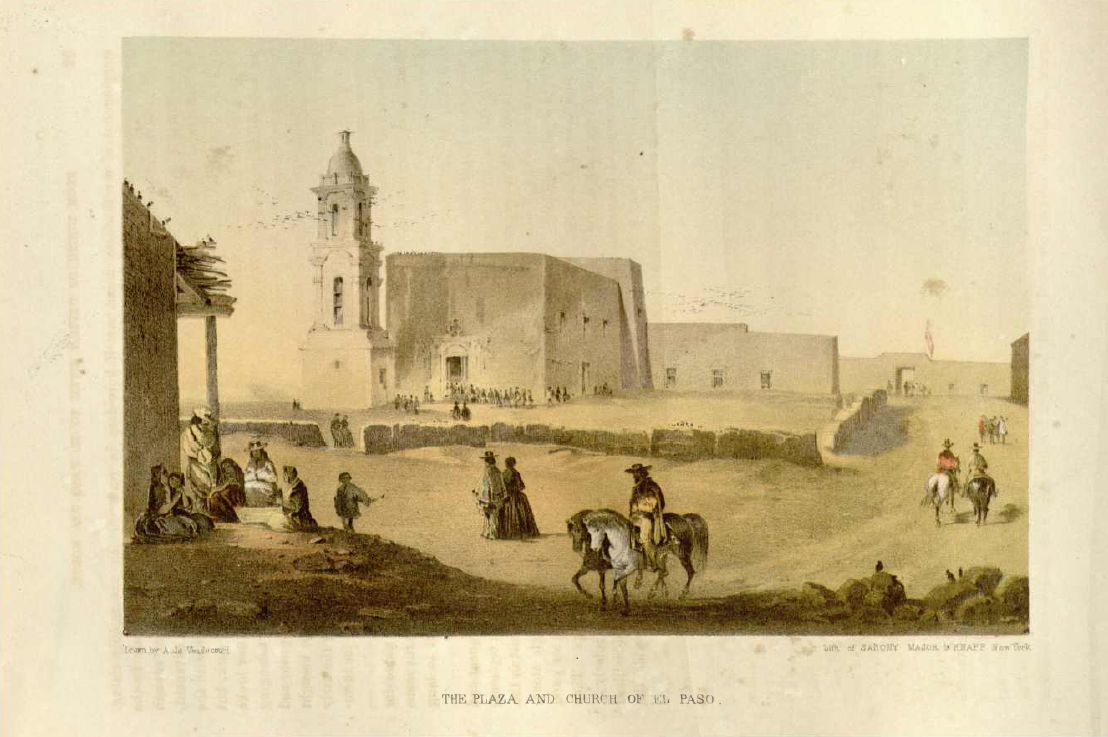 "The Plaza and Church of El Paso", one of numerous lithographs illustrating "Report on the United States and Mexican boundary survey" carried out 1848-1855 by the US Government